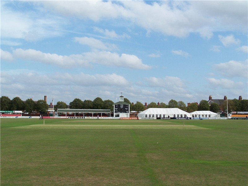 Grace Road,Leicester taken by kev747